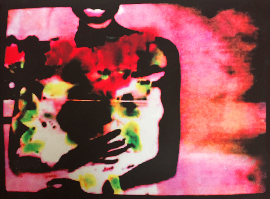 Handcolored silver gelatine print from black and white negative, masked and solarized, chemically toned and tinted, copied to 35 mm color film, by Michael A. Russ